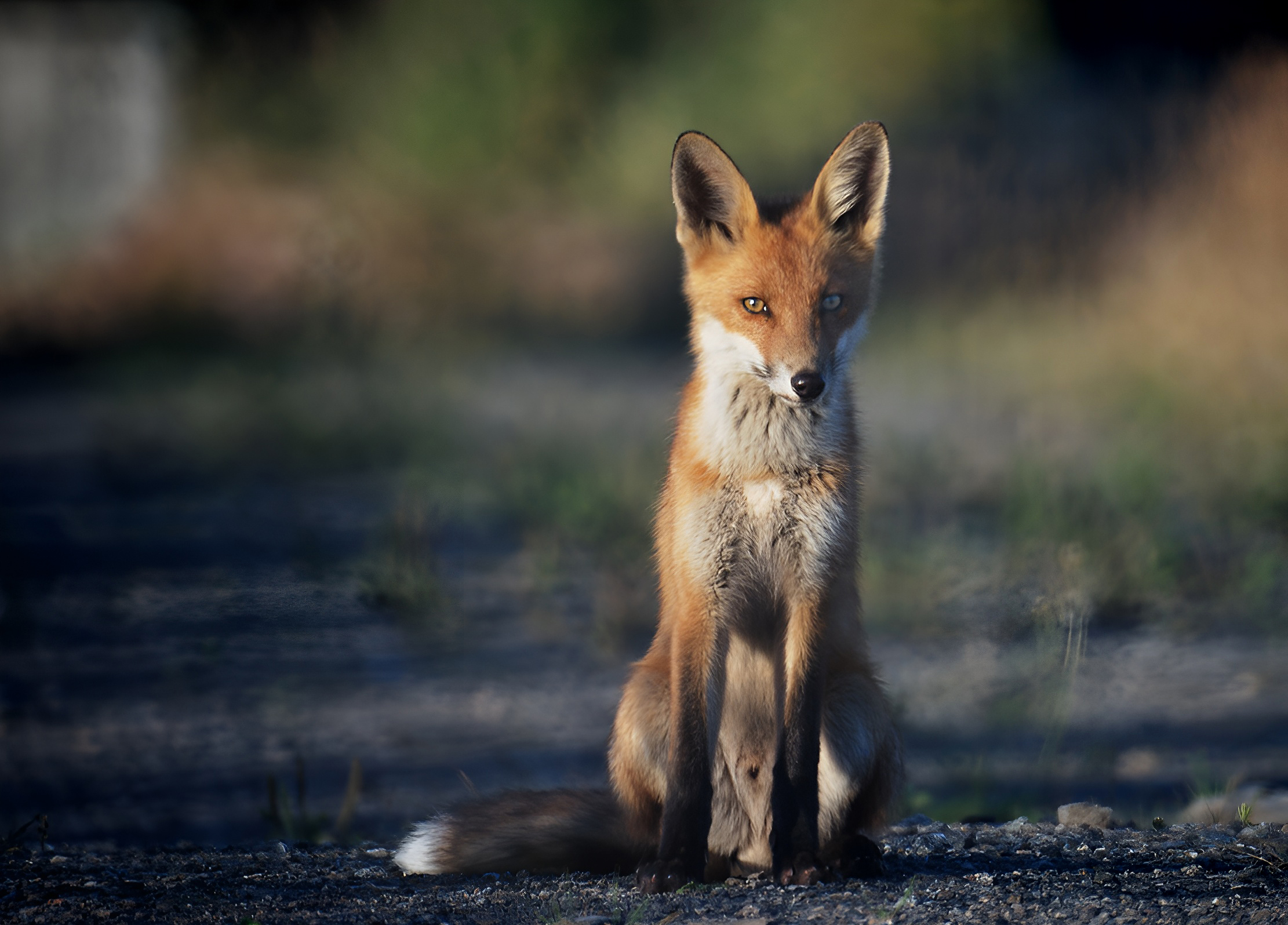 Red Fox.Ystad/Sweden.